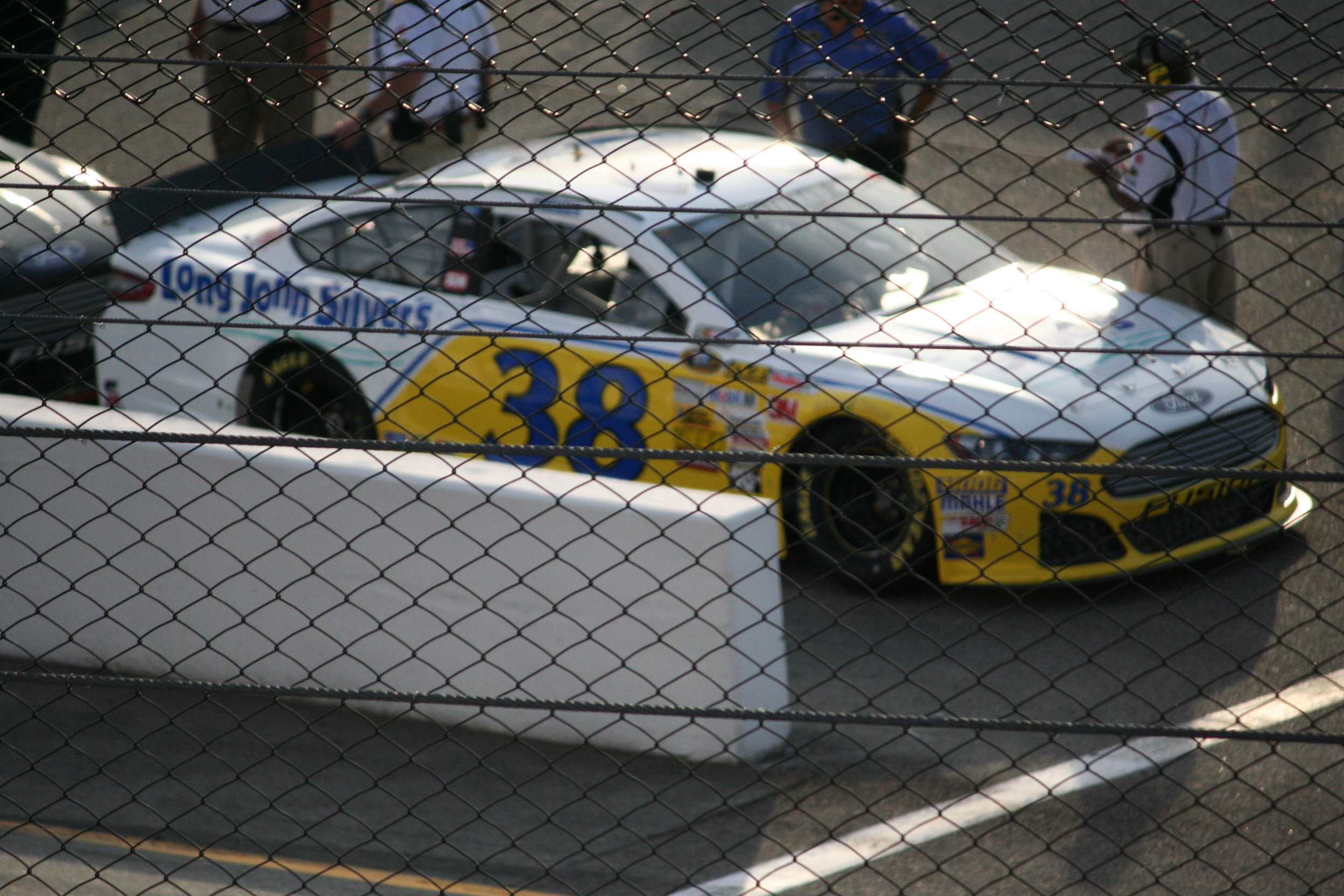 David Gilliland's No. 38 Ford waits to go out to qualify for the NASCAR Sprint Cup Series Toyota Owners 400 at Richmond International Raceway, April 26 2013.